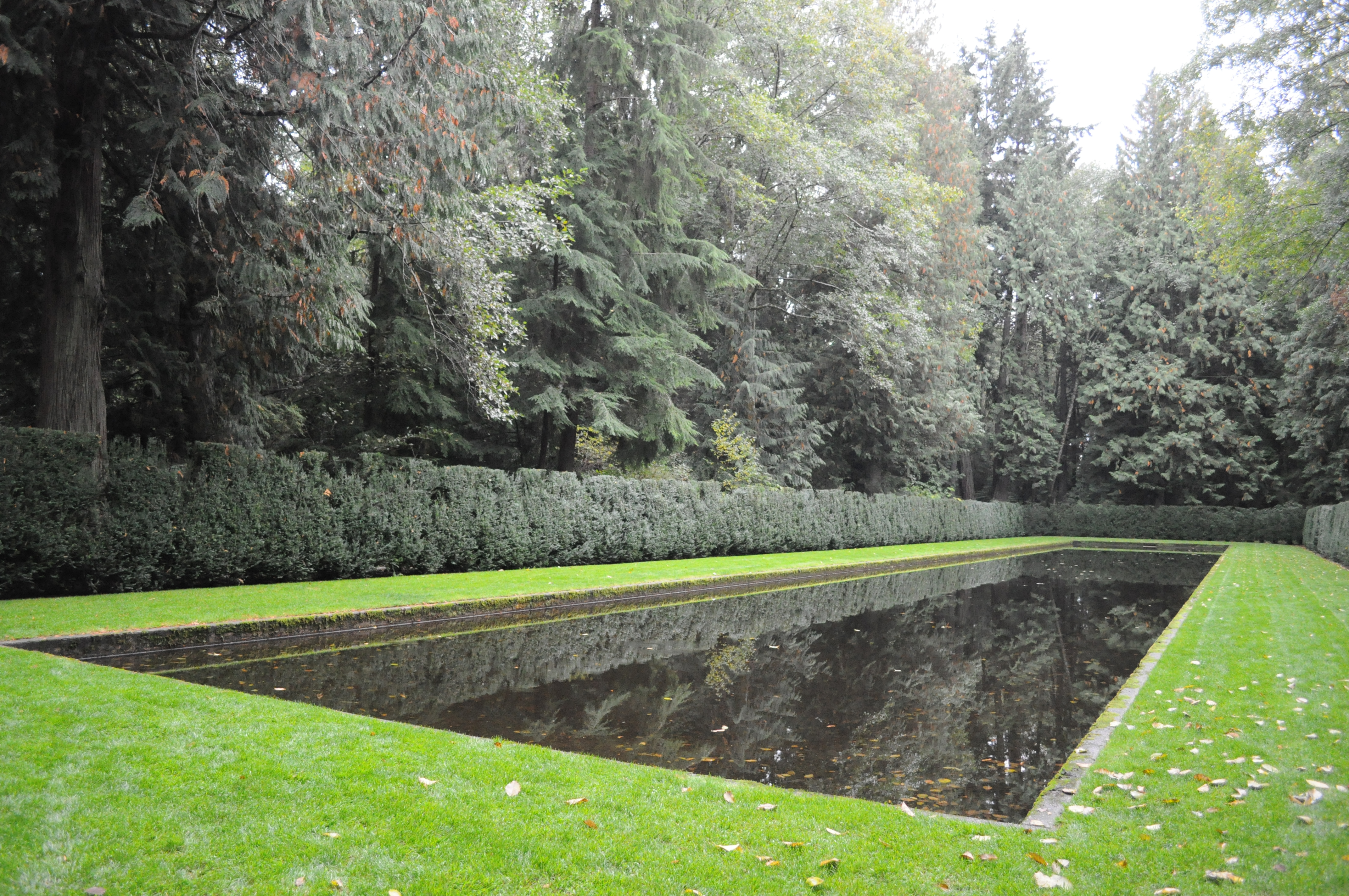 Reflection garden, Bloedel Reserve, Bainbridge Island, Washington. If anyone knowledgeable can identify plants prominently visible in this image, please do edit accordingly.